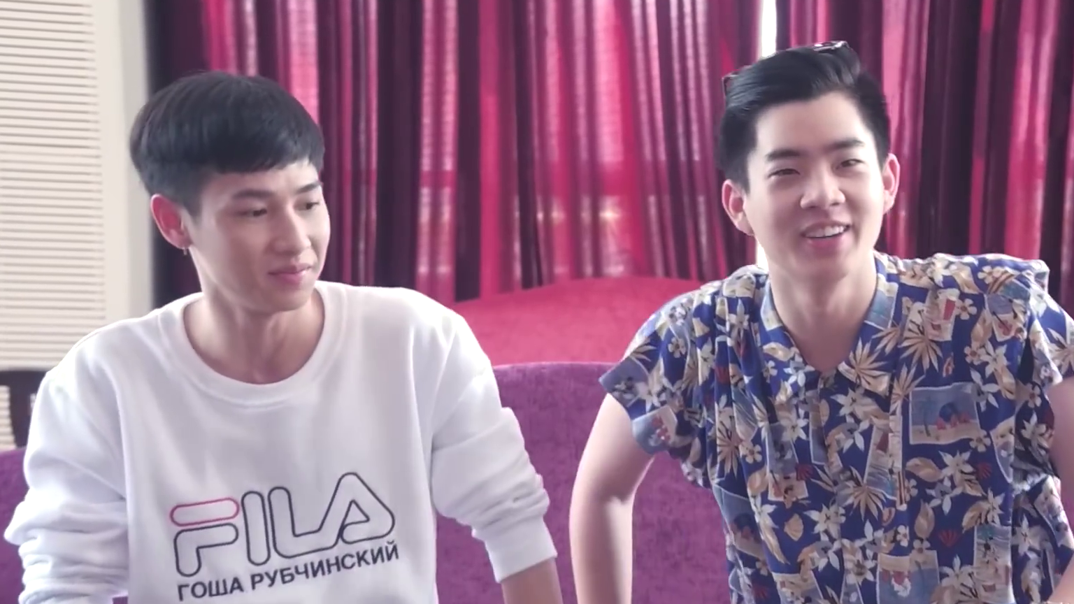 Off (Jumpol Adulkittiporn) and Gun (Atthaphan Phunsawat), screen capture from Game of Teens